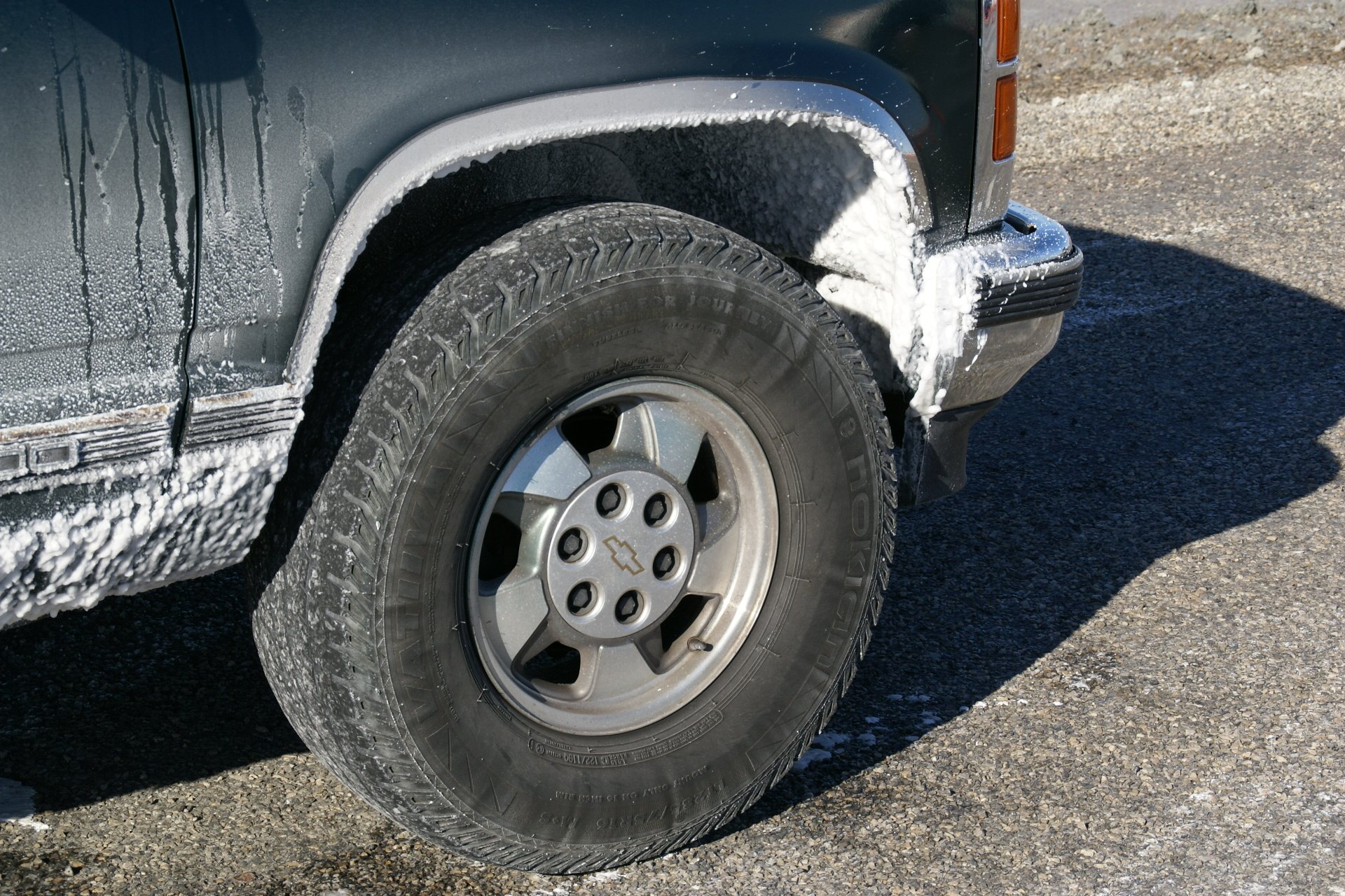 Salt on a vehicle after riding the speedway at Bonneville Salt Flats in Utah, USA